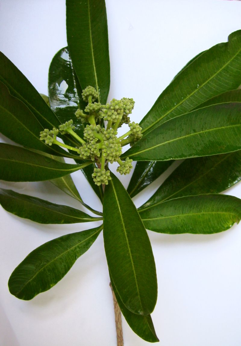 Alstonia scholaris flowers